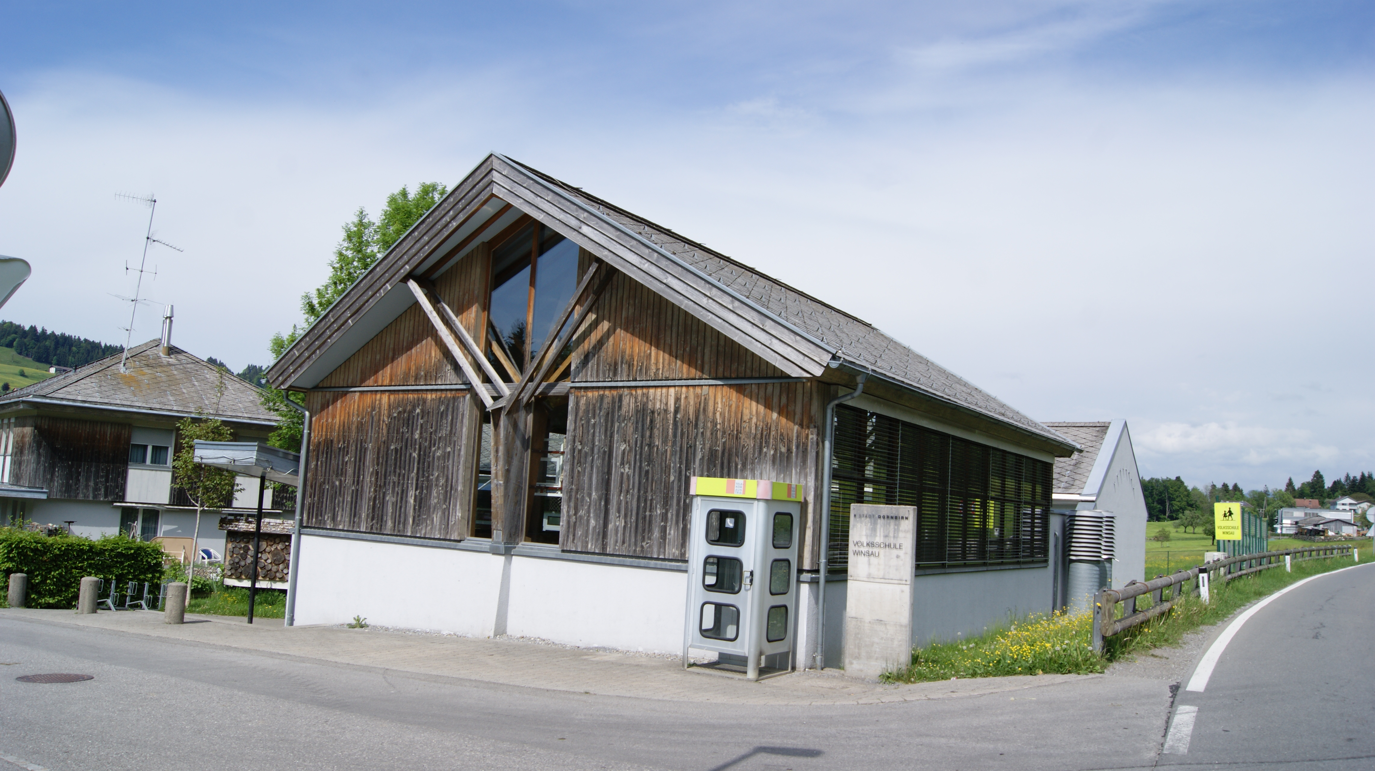 Elementary school Winsau in Dornbirn-Winsau, Vorarlberg, Austria.